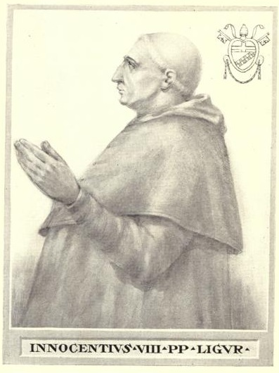 This illustration is from The Lives and Times of the Popes by Chevalier Artaud de Montor, New York: The Catholic Publication Society of America, 1911. It was originally published in 1842.